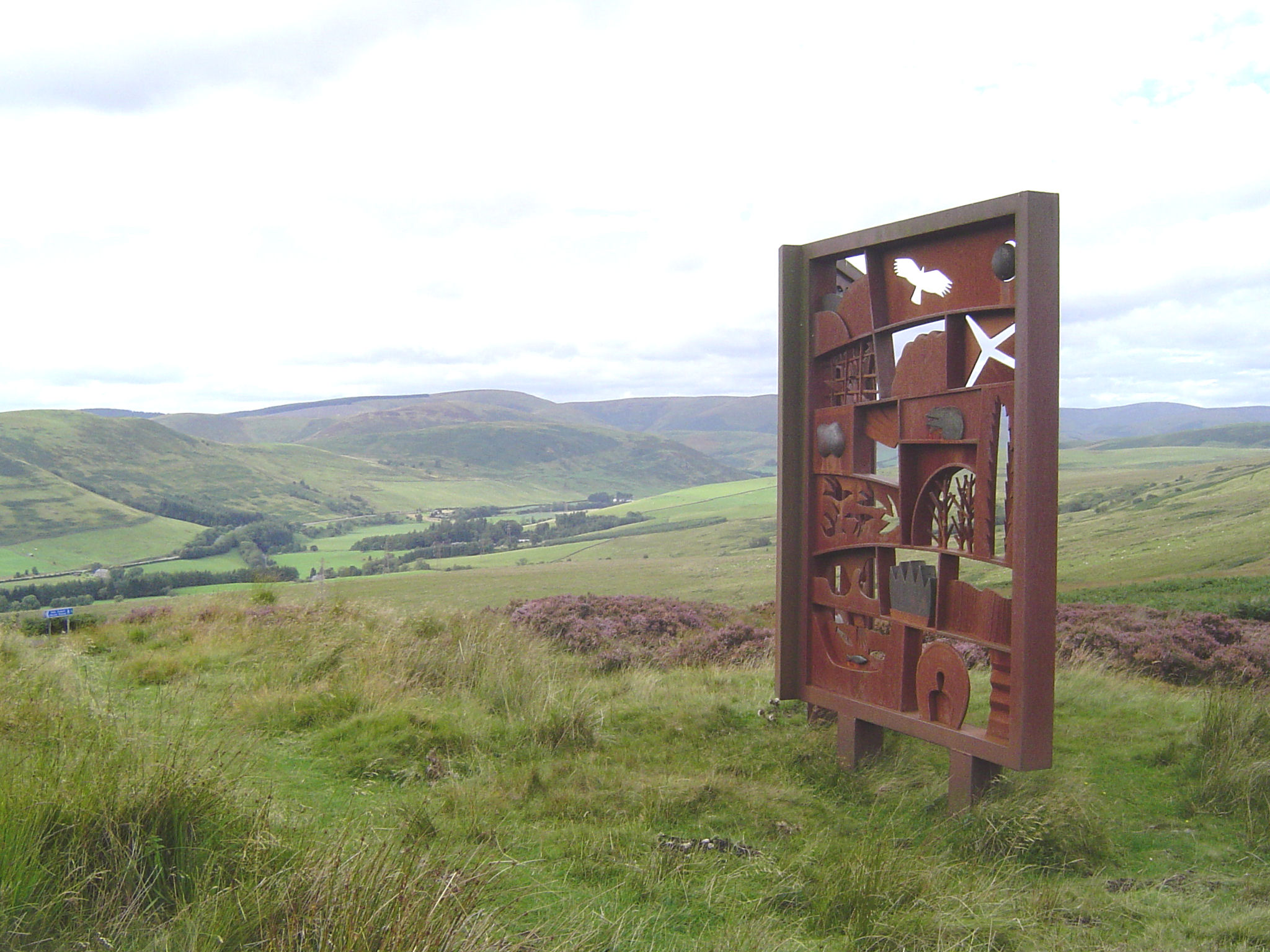 Hugh MacDiarmid memorial near Langholm. Made of cast iron it takes the form of a large open book depicting images from his writings.